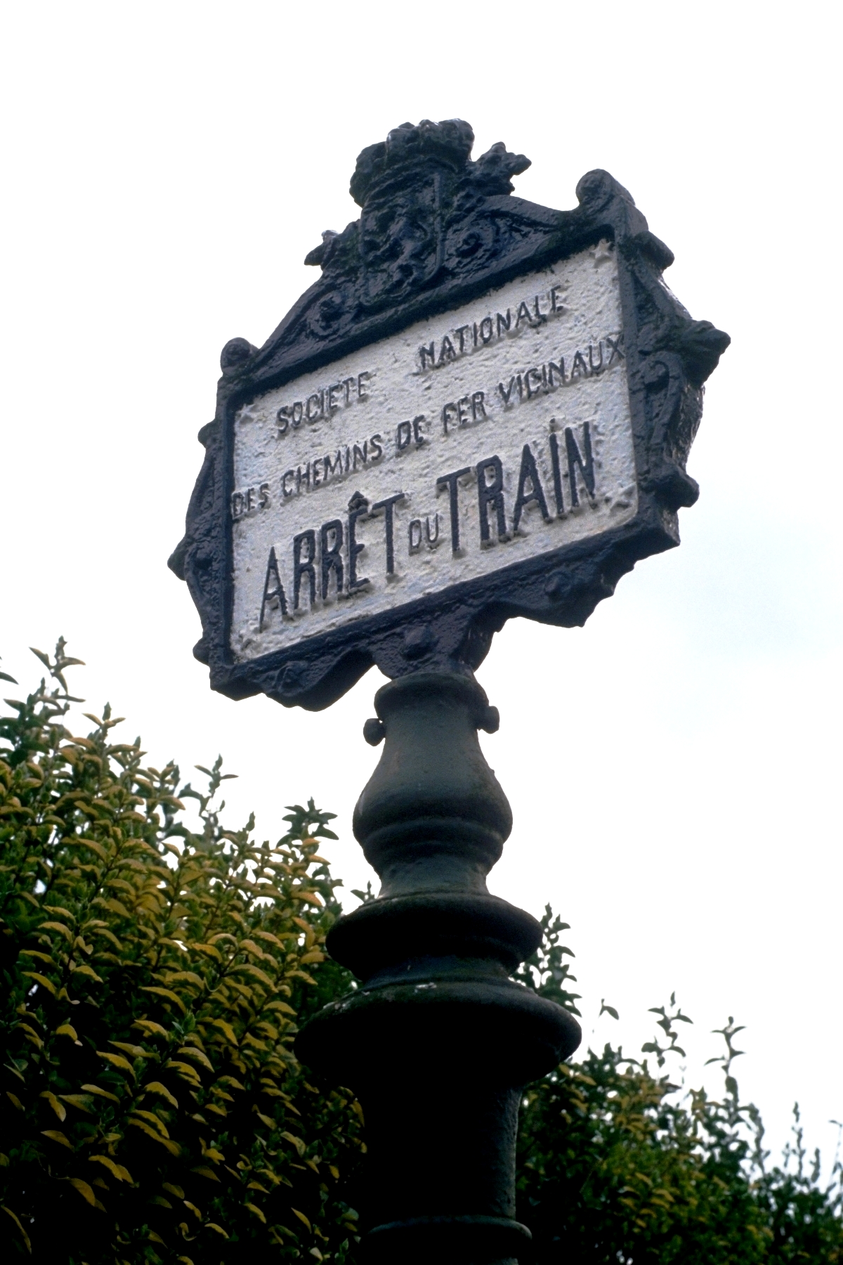 Keywords: SNCV, vicinal railways, rail, metre gauge, tram, train, signalling, signal, Schepdaal, Belgium